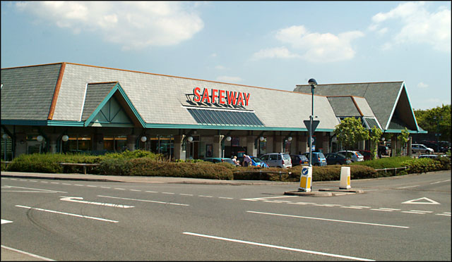 Safeway Superstore, Bude. Original description (circa 2005) states "This store will soon be rebranded as Morrisons, following their successful takeover late last year [2004]."